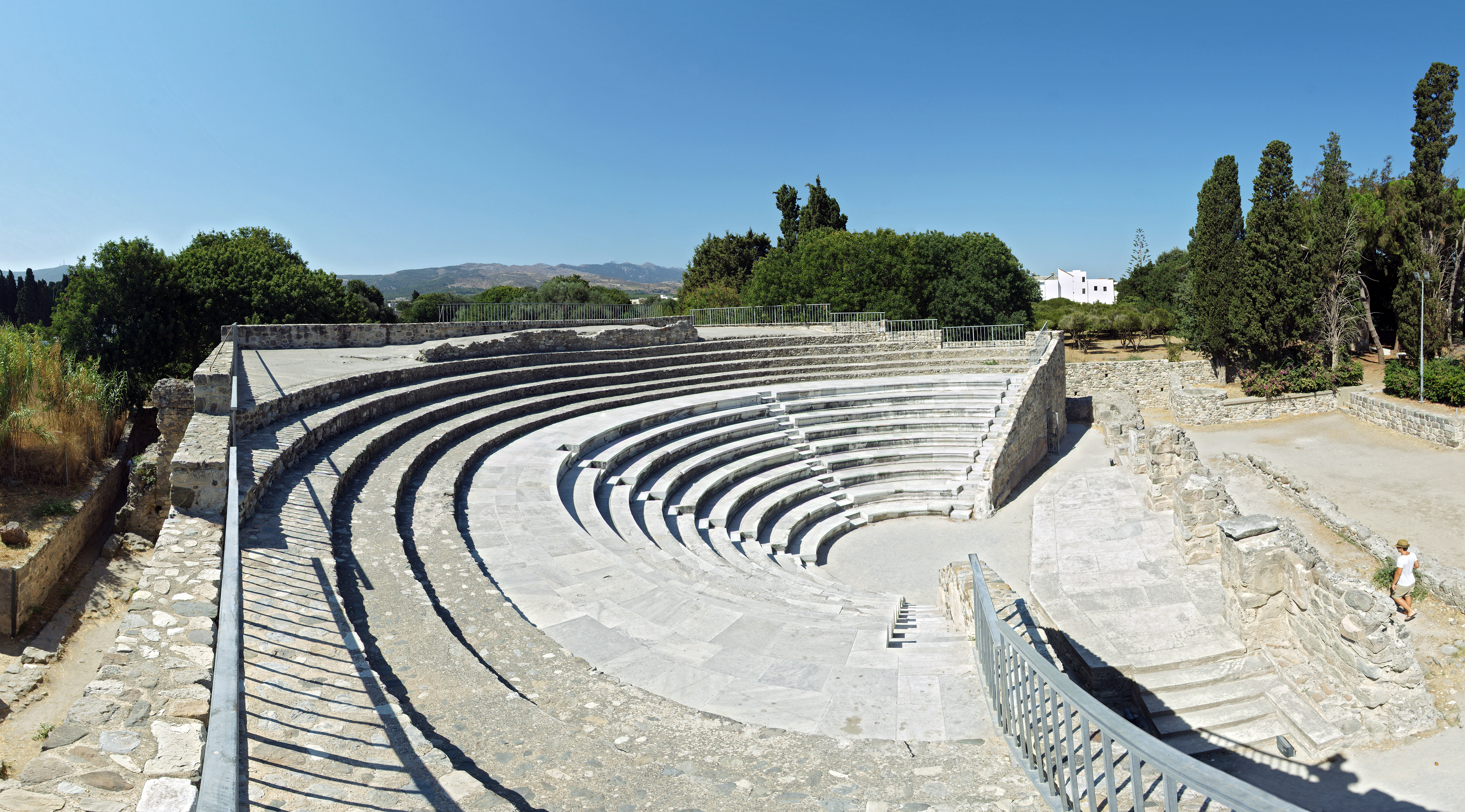 The Odeon of Kos in Kos, Greece.